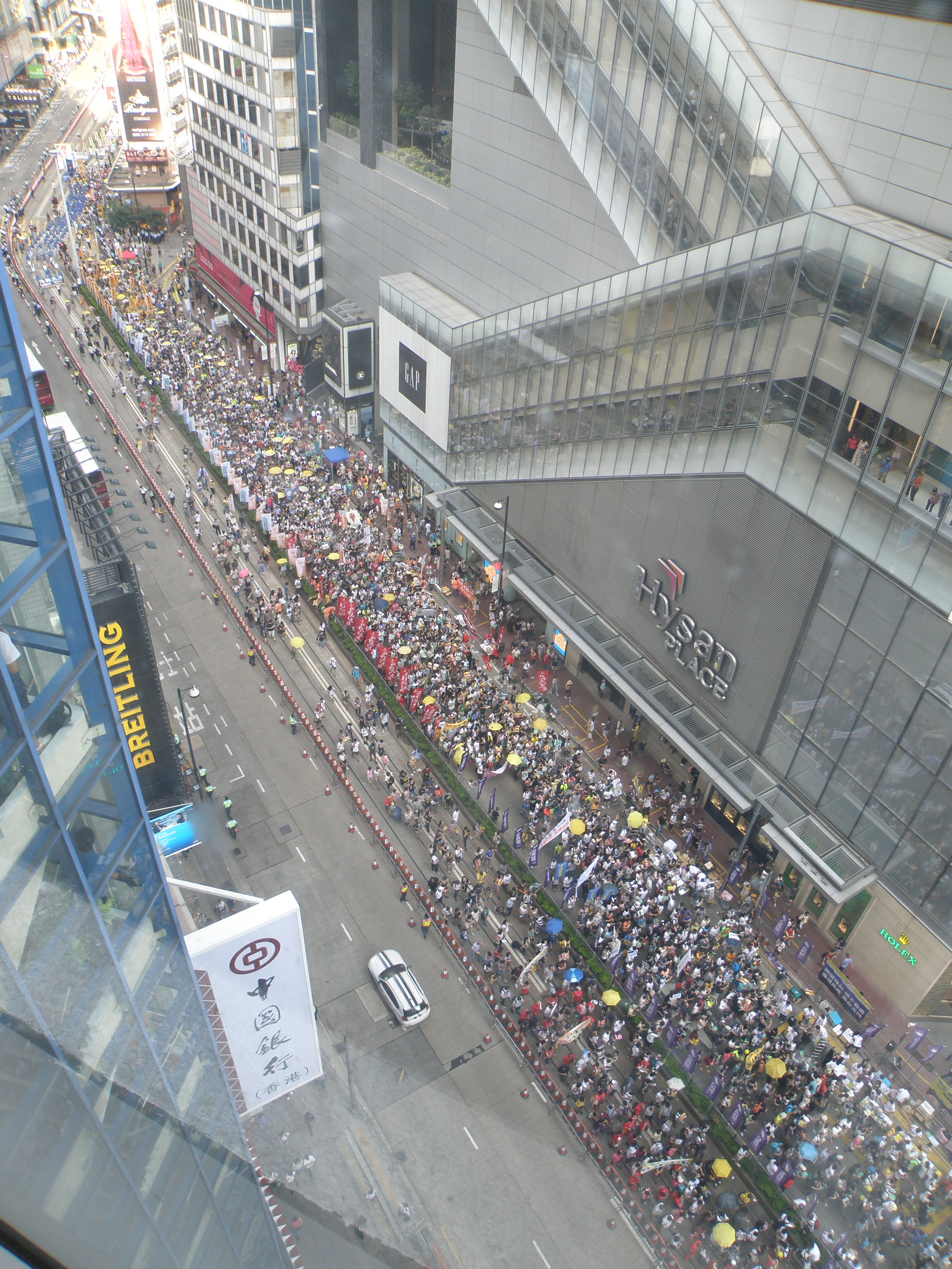 1 July marches 2015 in Hong Kong Island north coast.